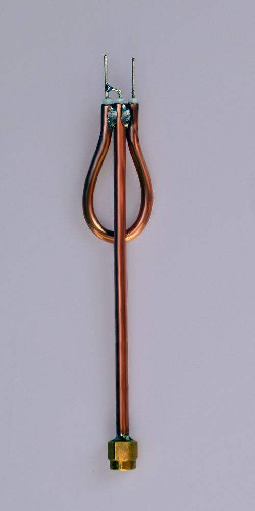 Balun (balanced to unbalanced), RF-Transformator to connect a dipole to a semirigid coaxial line for L-band application